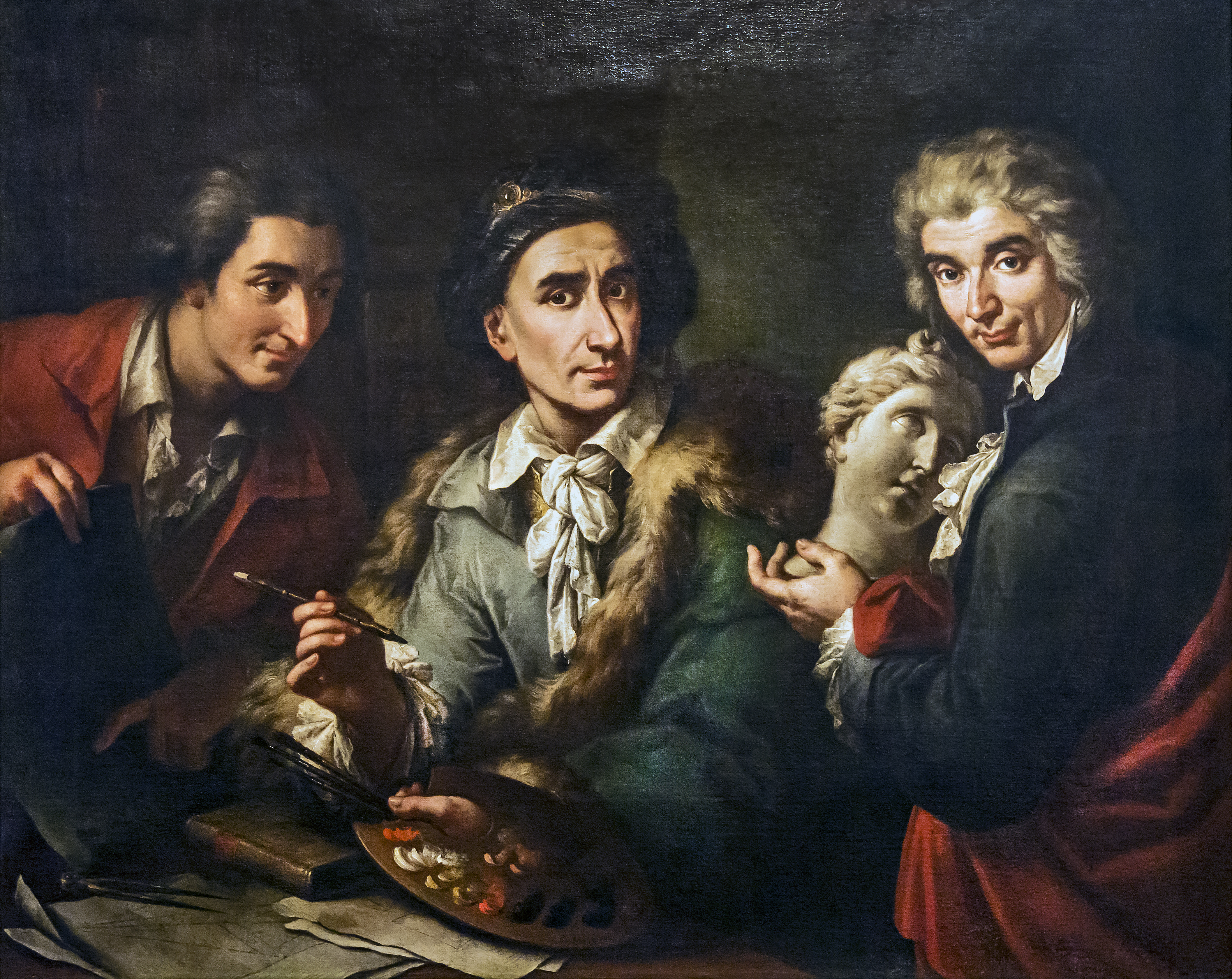 Autoritratto con due allievi (Self-portrait with two pupils Antonio Florian and Giuseppe Pedrini) by Francesco Maggiotto (1792), Gallerie dell'Accademia in Venice. Oil on canvas. Heirs Maggiotto, purchase 1921 Inventory number: Cat.839